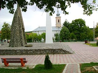 Center of the village